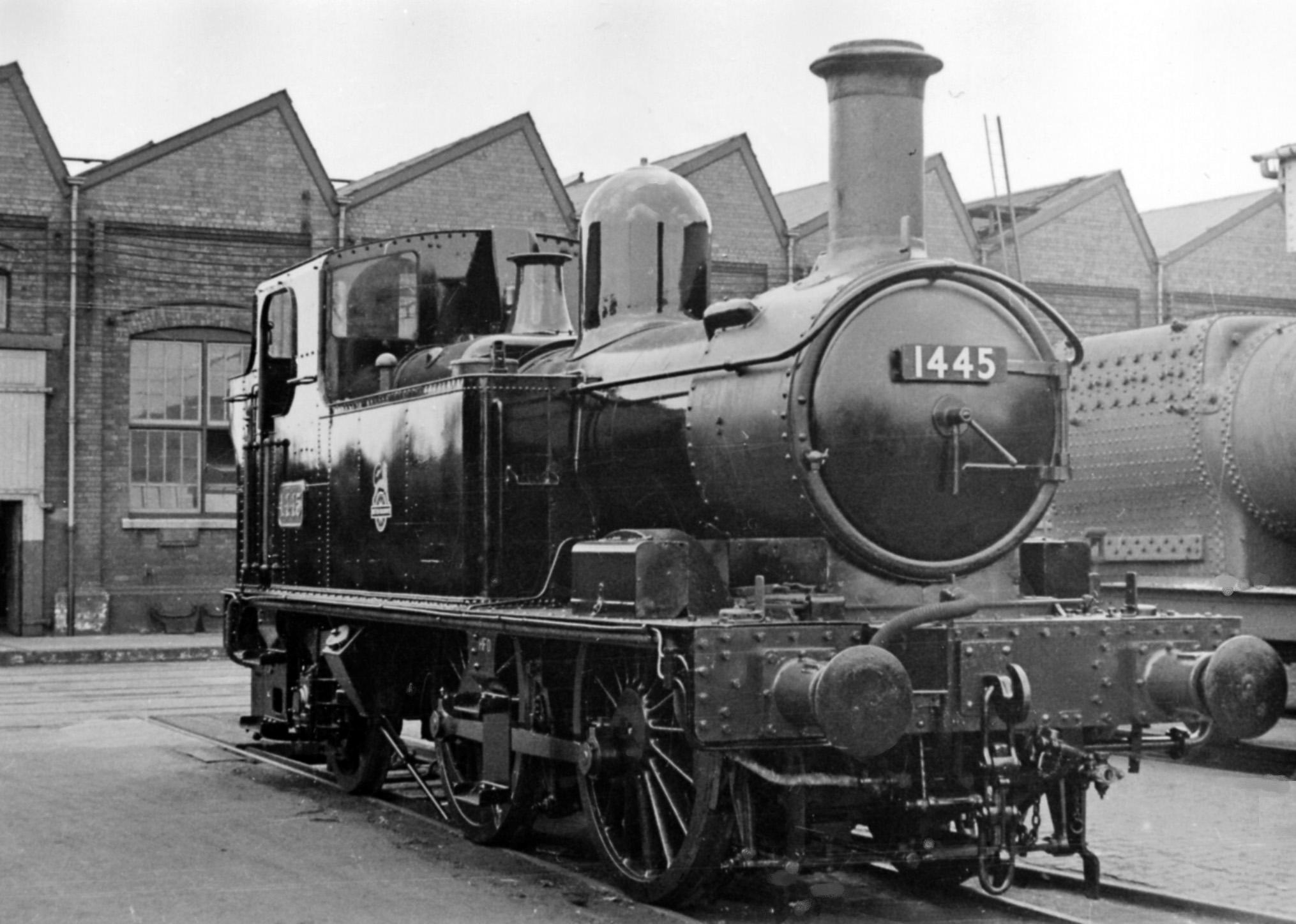 Swindon Works: a '1400' class 0-4-2T freshly repaired. No. 1445 was built as No. 4845 in 4/35 as a standard auto-fitted '4800' class 0-4-2T, renumbered in 11/46 and survived until 9/64.